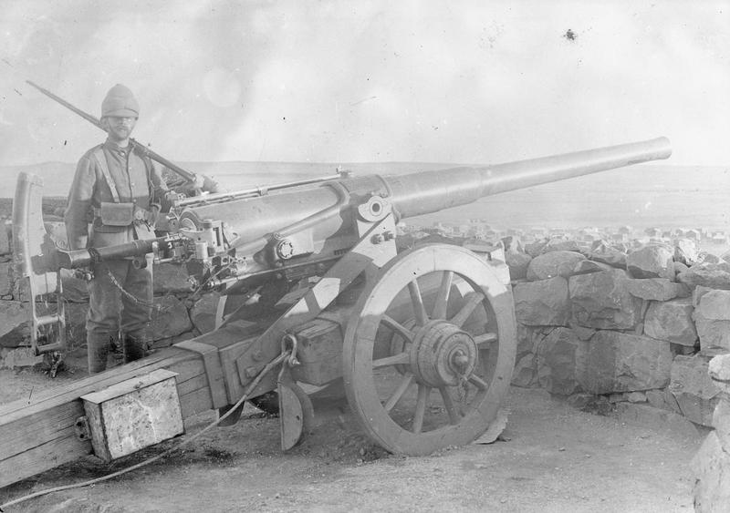 The Second Boer War, 1899-1902 A 4.7 inch naval gun on the 'Percy Scott' gun carriage adapted for ashore.